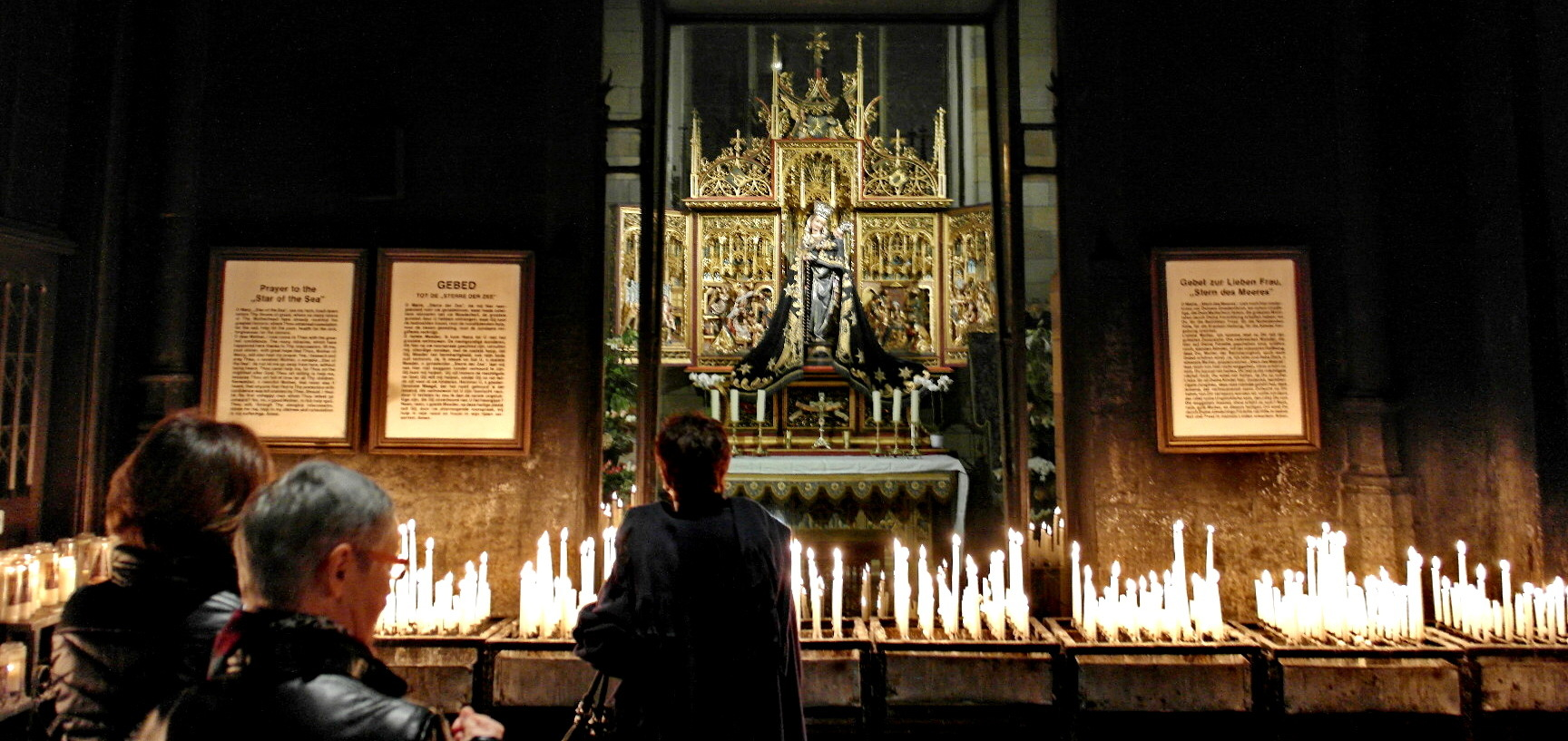 Maastricht, the Netherlands. Interior of the chapel of Our Lady, Star of the Sea.